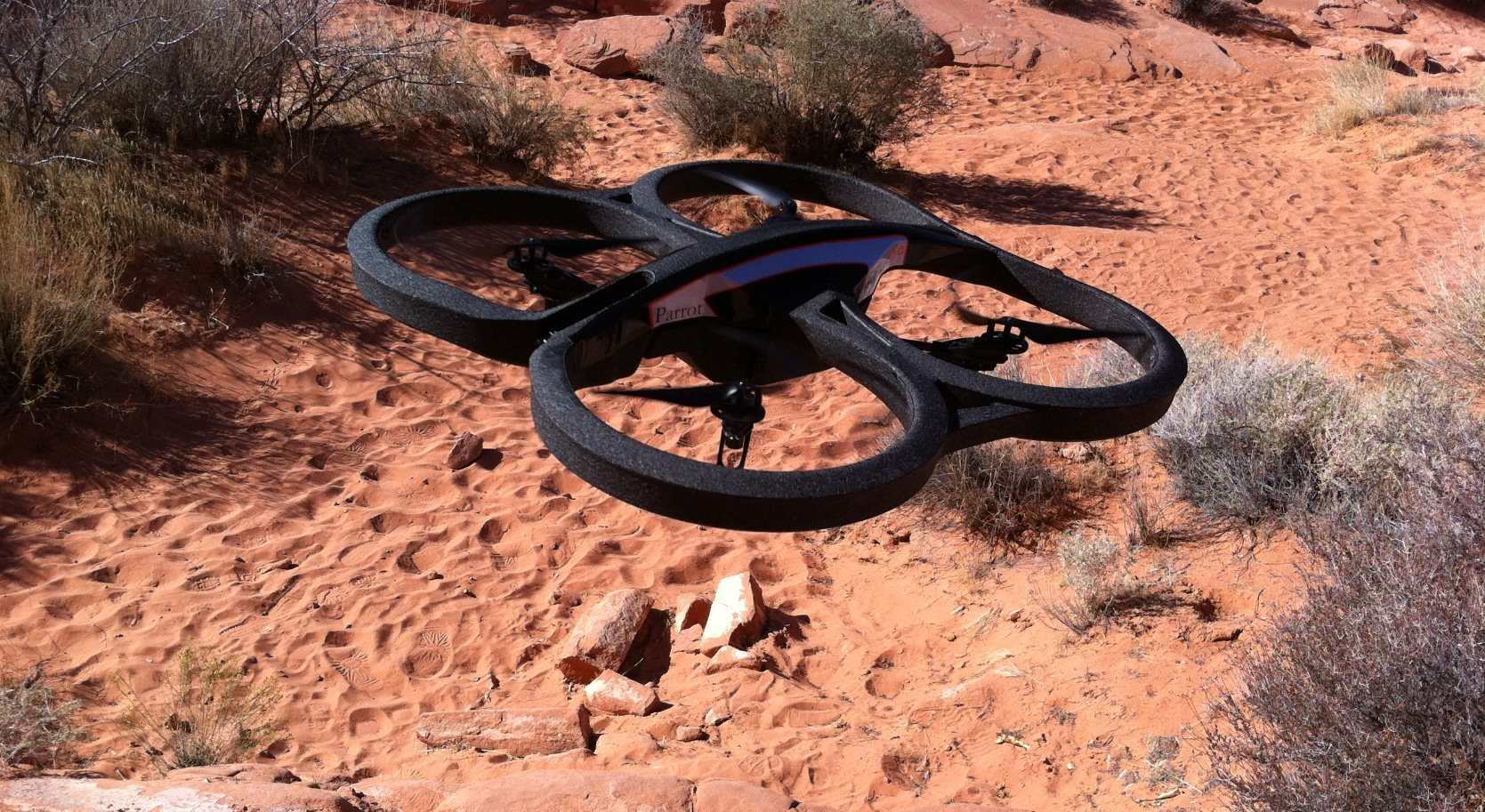 Shot in Nevada